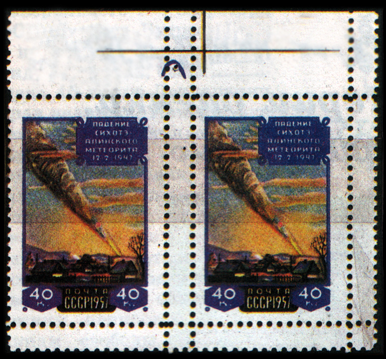 USSR stamp, 1957, CPA 2097. 10th anniversary of Sikhote-Alin Meteorite fall